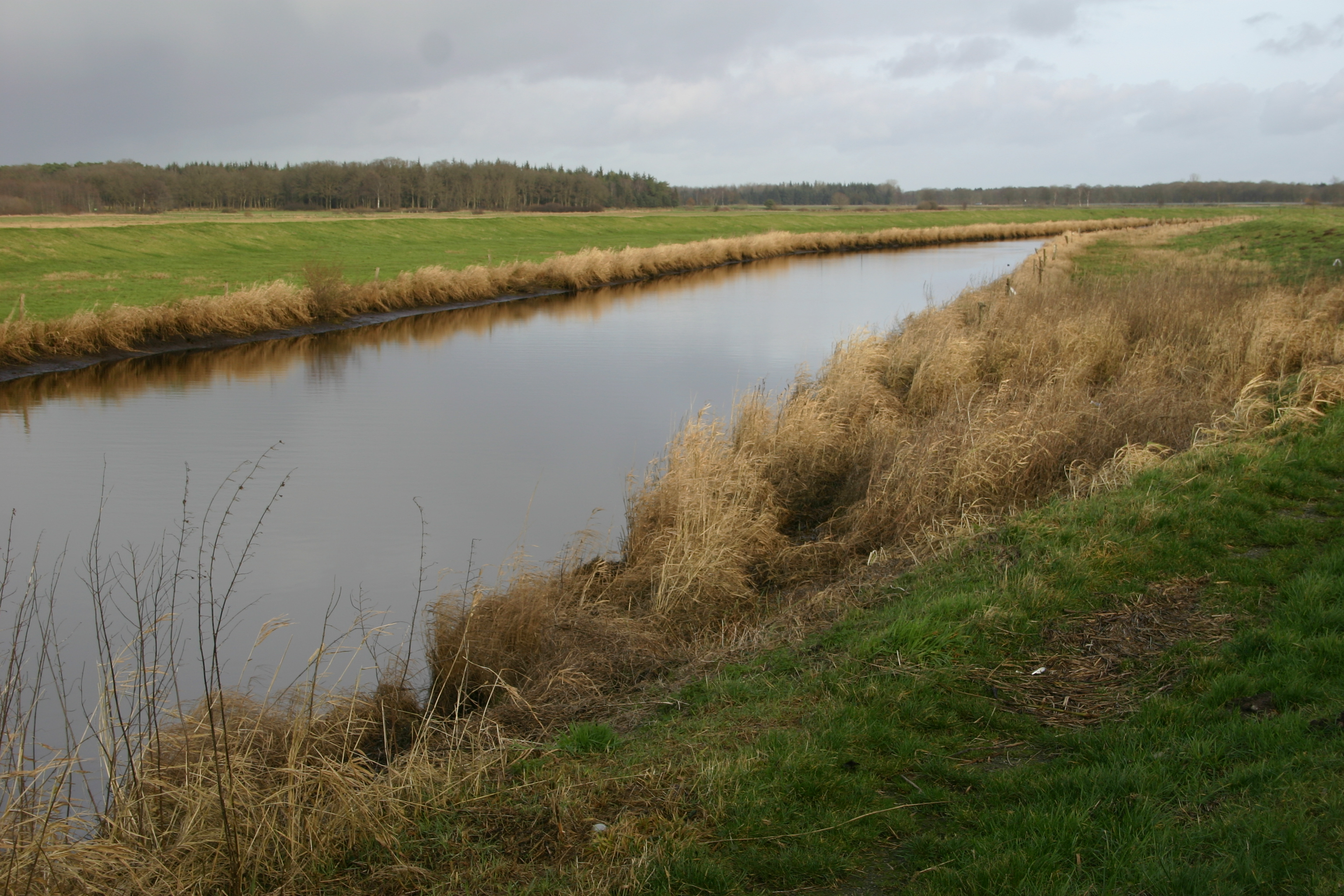 Holtlander Ehetief, a small river in the district of Leer, East Frisia, Germany